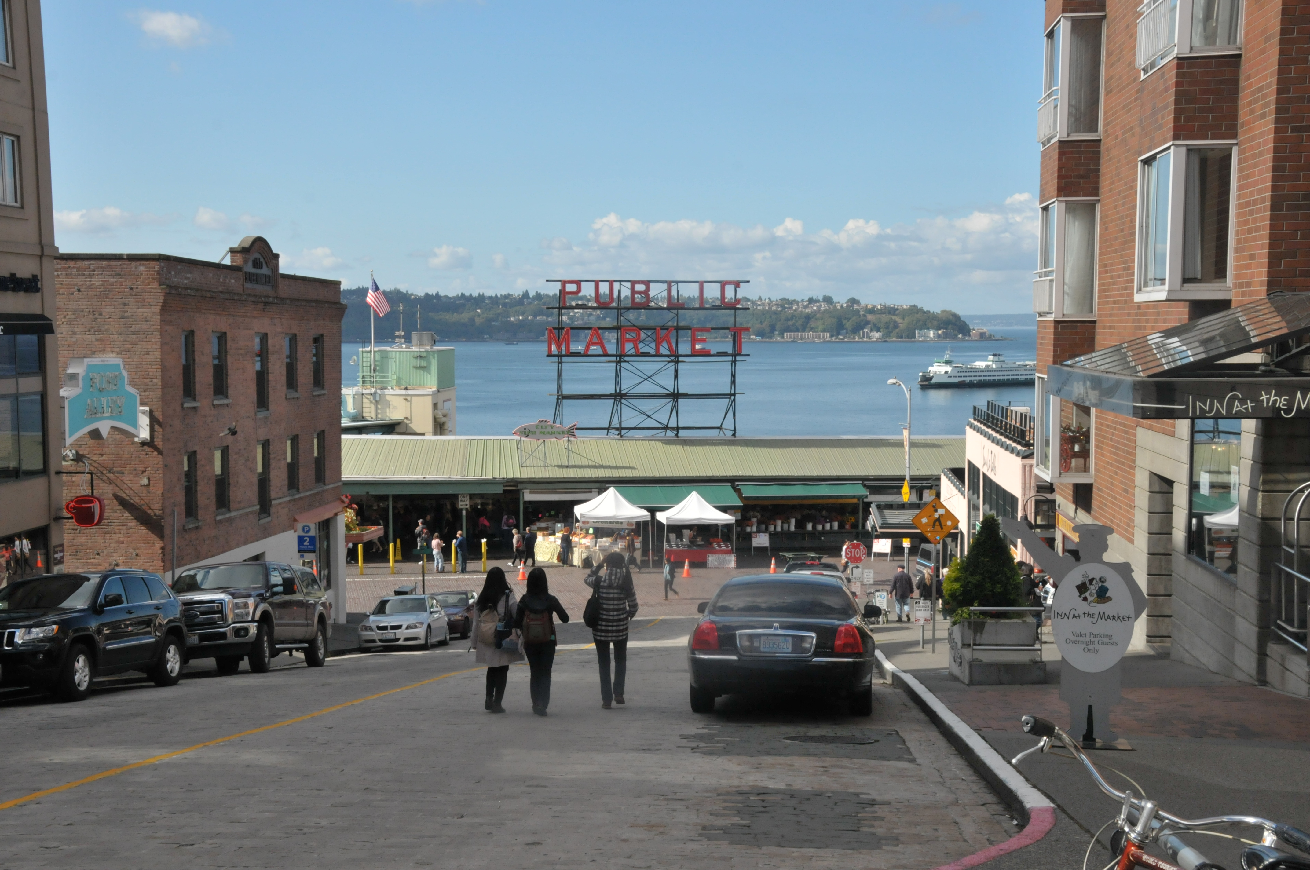 View down Pine Street toward Pike Place Market and Elliott Bay in Seattle, Washington, US